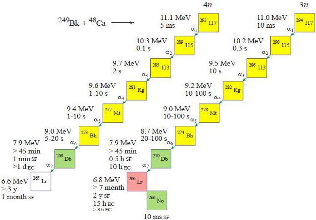 This is a picture of the calculated decay chains starting from ununseptium-293 and ununseptium-294